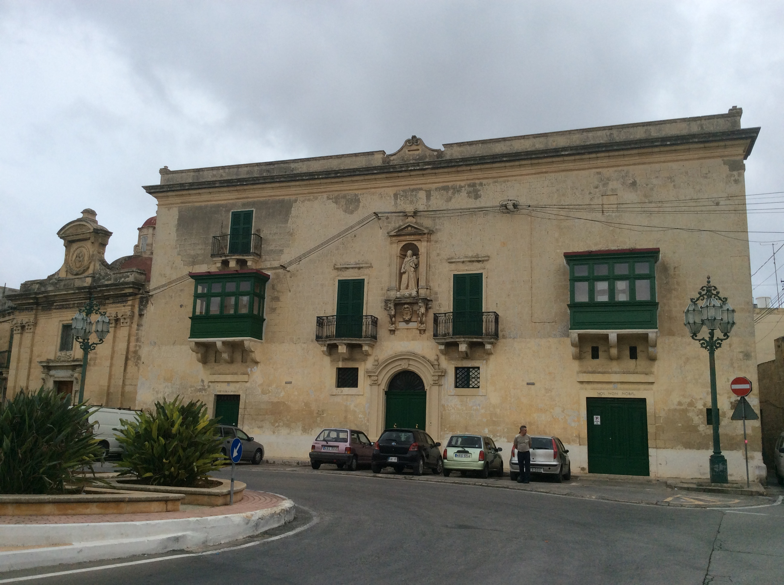 The Niche of Prophet Daniel and the Chapel of Our Lady of good Counsel This media is about Maltese cultural property with inventory number 01914.pdf 01912 01914.